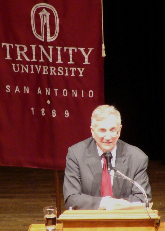 Seymour Hersh, at Trinity University, San Antonio, Texas